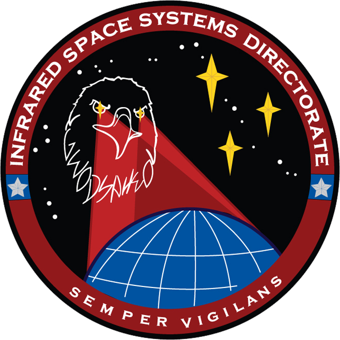 Logo of the Infrared Space Systems Directorate of the United States Air Force